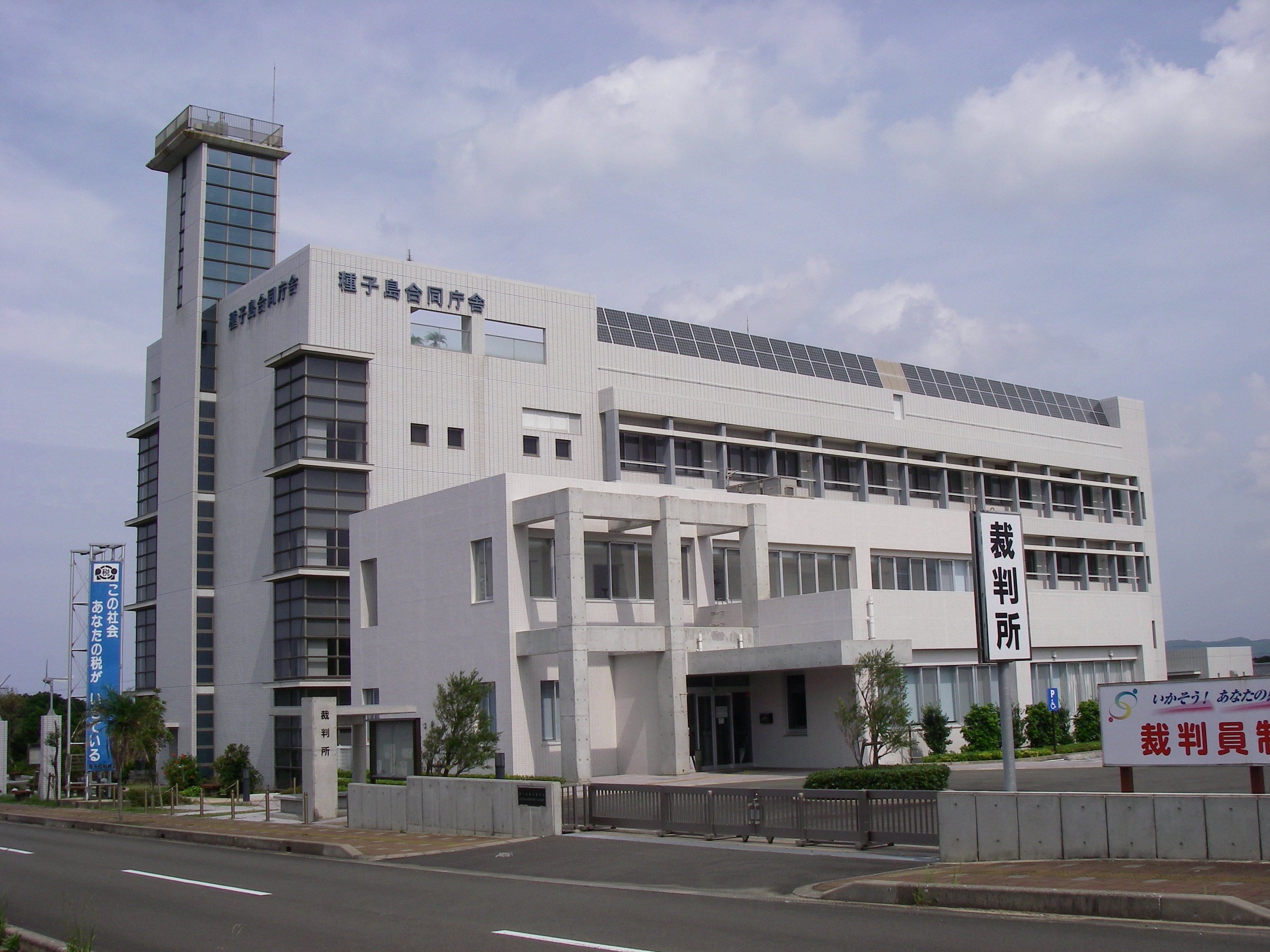 Tanegashima joint government building (far), and Tanegashima Summary Court (near), Nishinoomote, Kagoshima